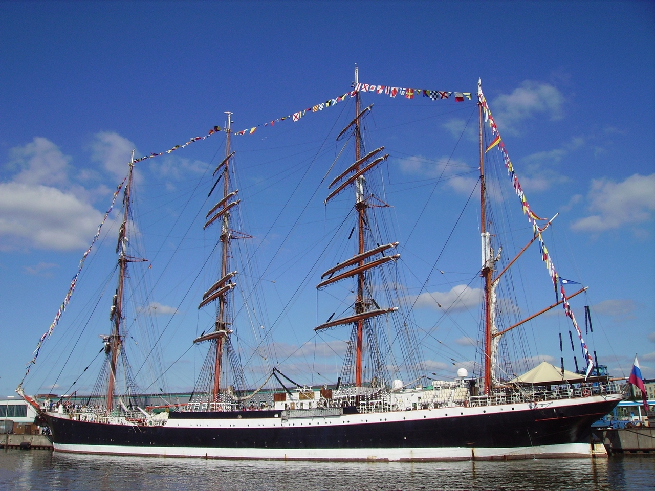 The Russian sailing ship Sedov in the port of Bremerhaven, Germany